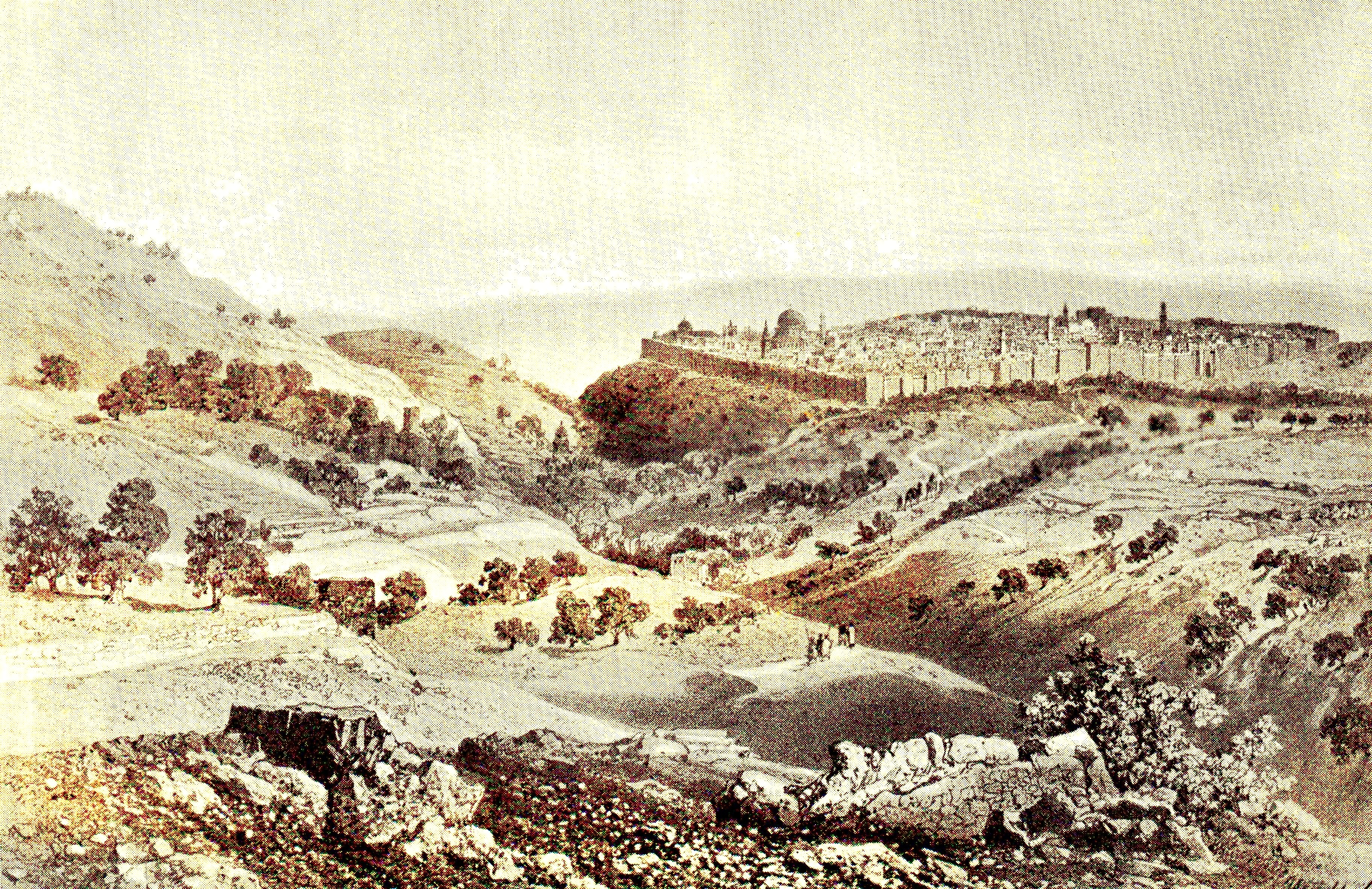 Painting of Jerusalem (1898) — by Charles William Meredith van der Velde.